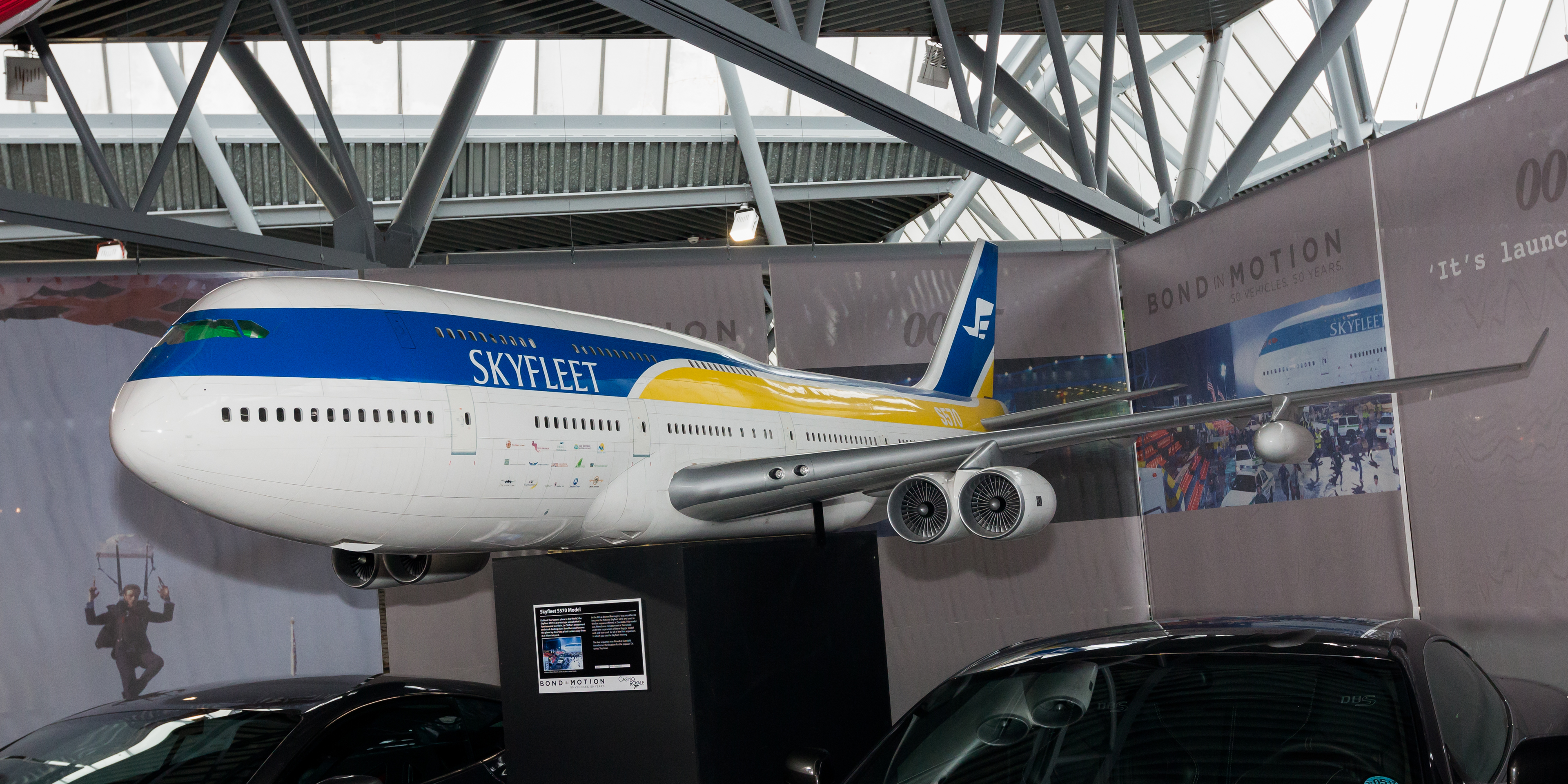 Skyfleet S570 prop, from "Casino Royale" (2006)